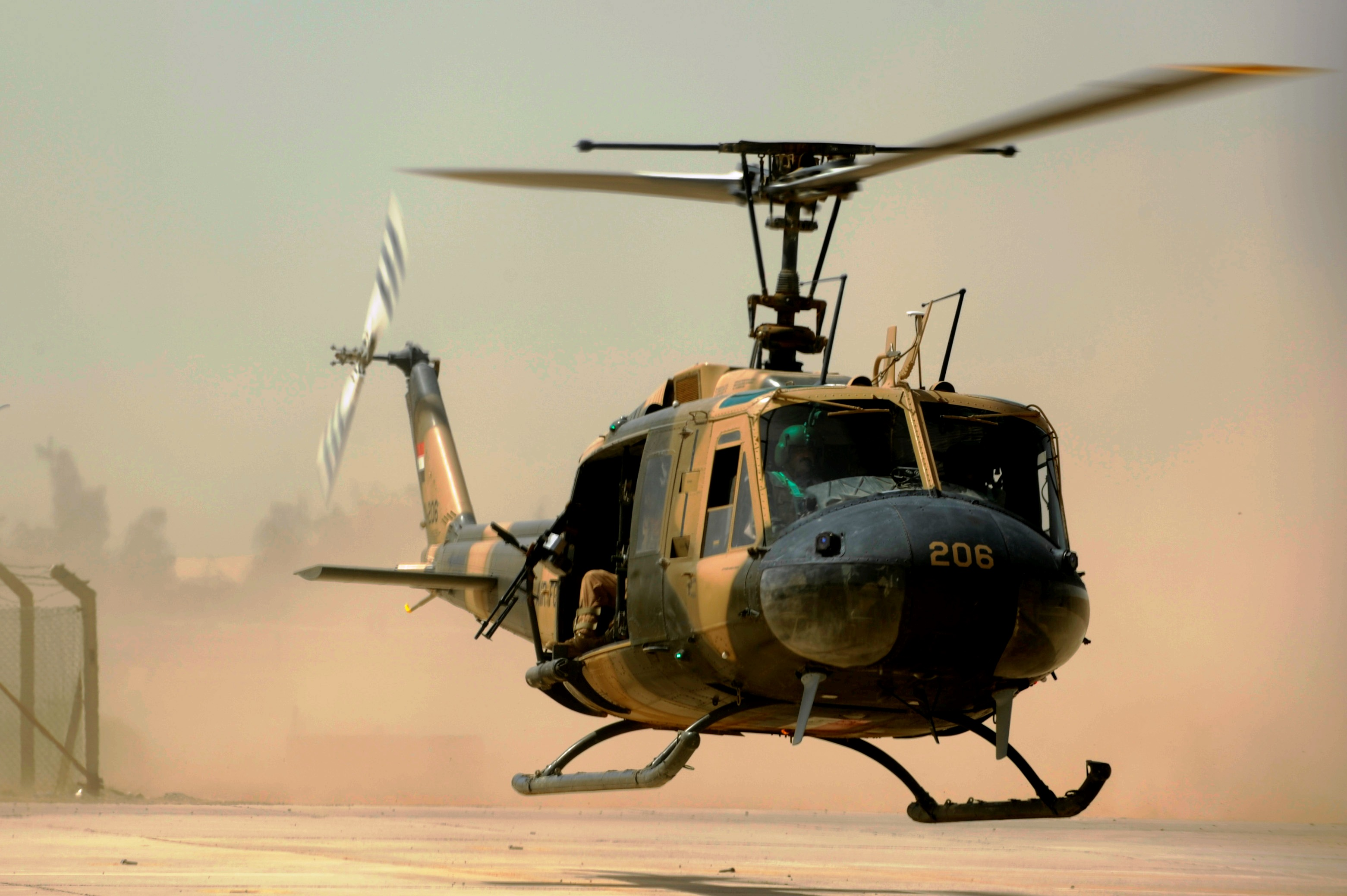 An Iraqi air force UH-1H II Huey helicopter embarks on a medical transportation flight at Taji Air Base, Iraq, July 17th, 2009.